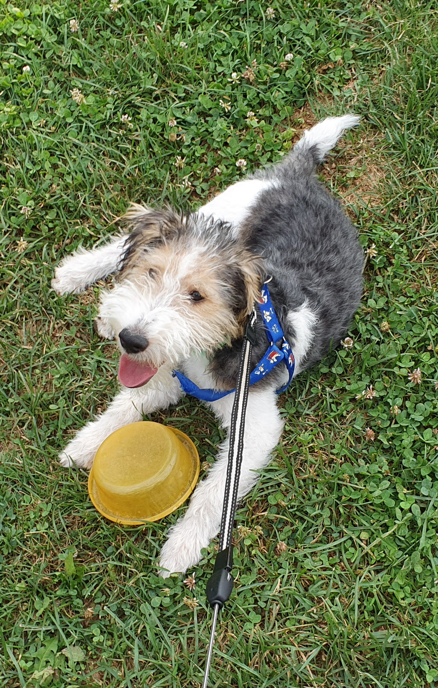 4 months old Wire Fox Terrier puppy playing with water bowl in grass